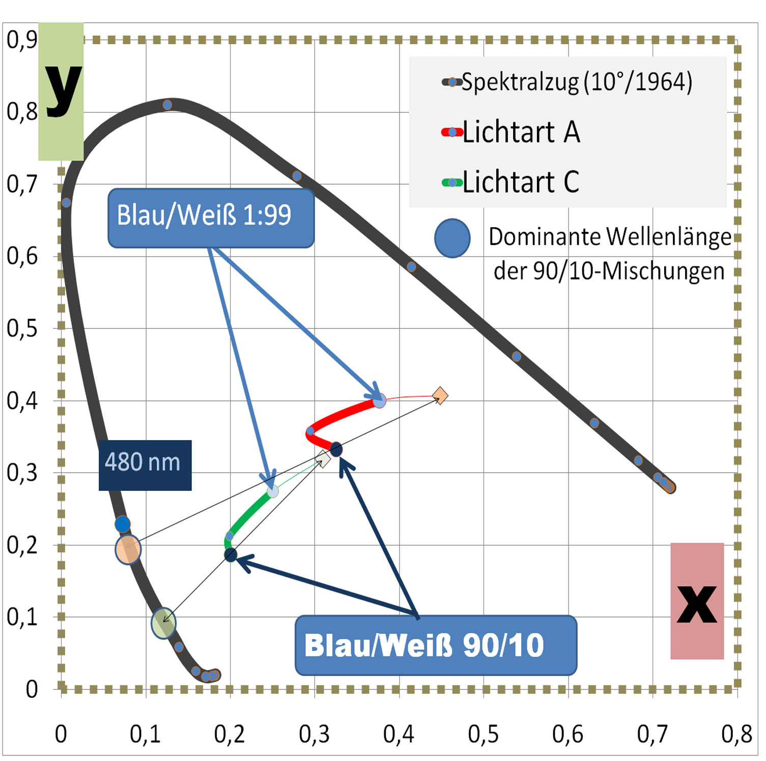 A chromaticity-diagramm in Standard illuminant A and C, with White points, and the tristimulus from an enamel with different parts of Iron Blue an Titanwhite: 90 to 10, 10 to 90 and 1 to 99, with the CIE-curve of spectral colors.